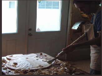 Marchione working at Houston studio, Carving Spruce Top